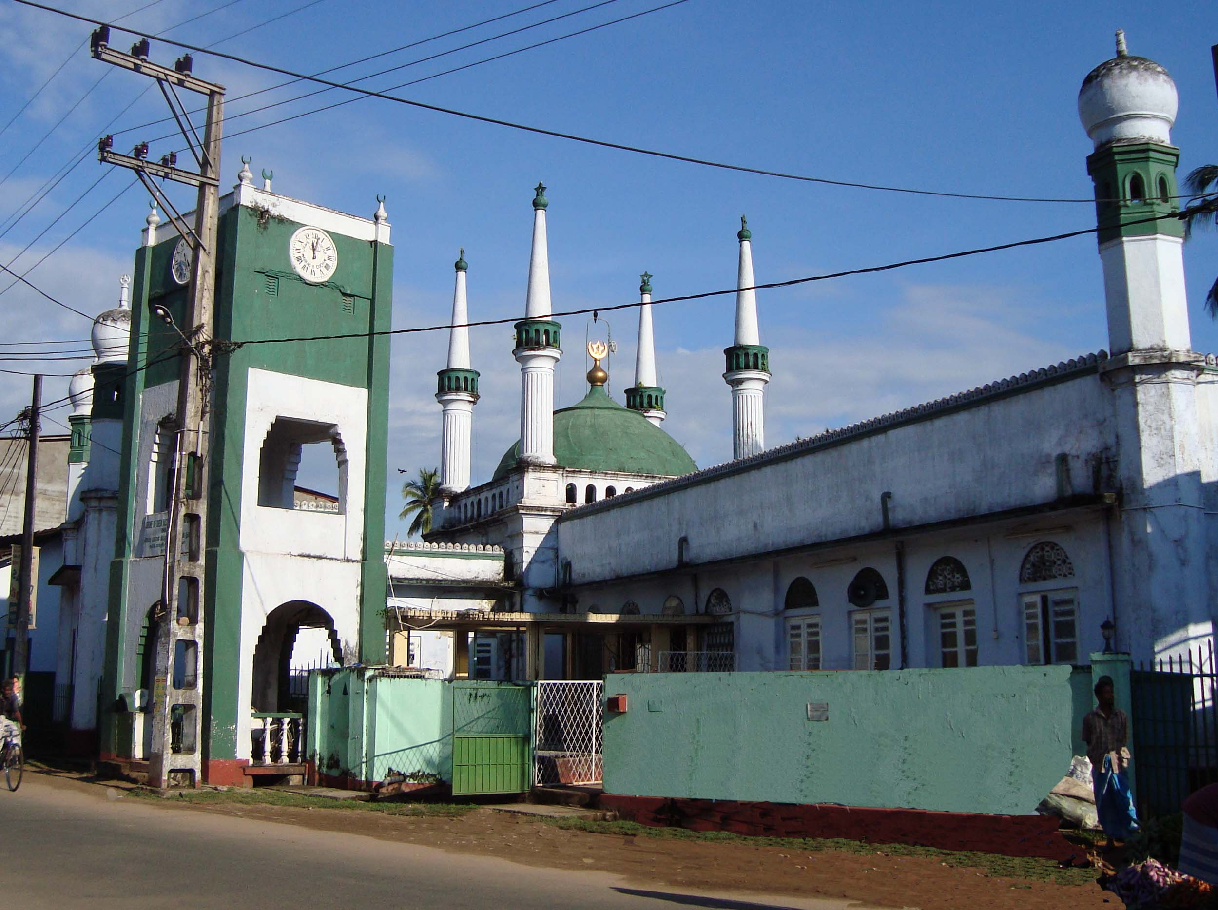 The Shrine of Sheikh Hassan at Dharga Town, Sri Lanka. Its clock tower has remained an important land mark of the town.